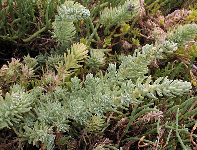 Suaeda taxifolia in Mugu Lagoon, Santa Monica Mountains National Reacreation Area, California, USA. NPS photo, no copyright